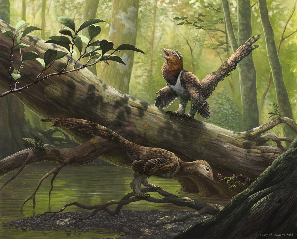 Pair of basal avialan Balaur bondoc in their native Hateg island environment of what is now Romania, 70 million years ago.